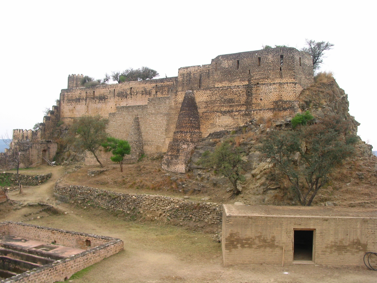 Ramkot Fort - The Courtyard